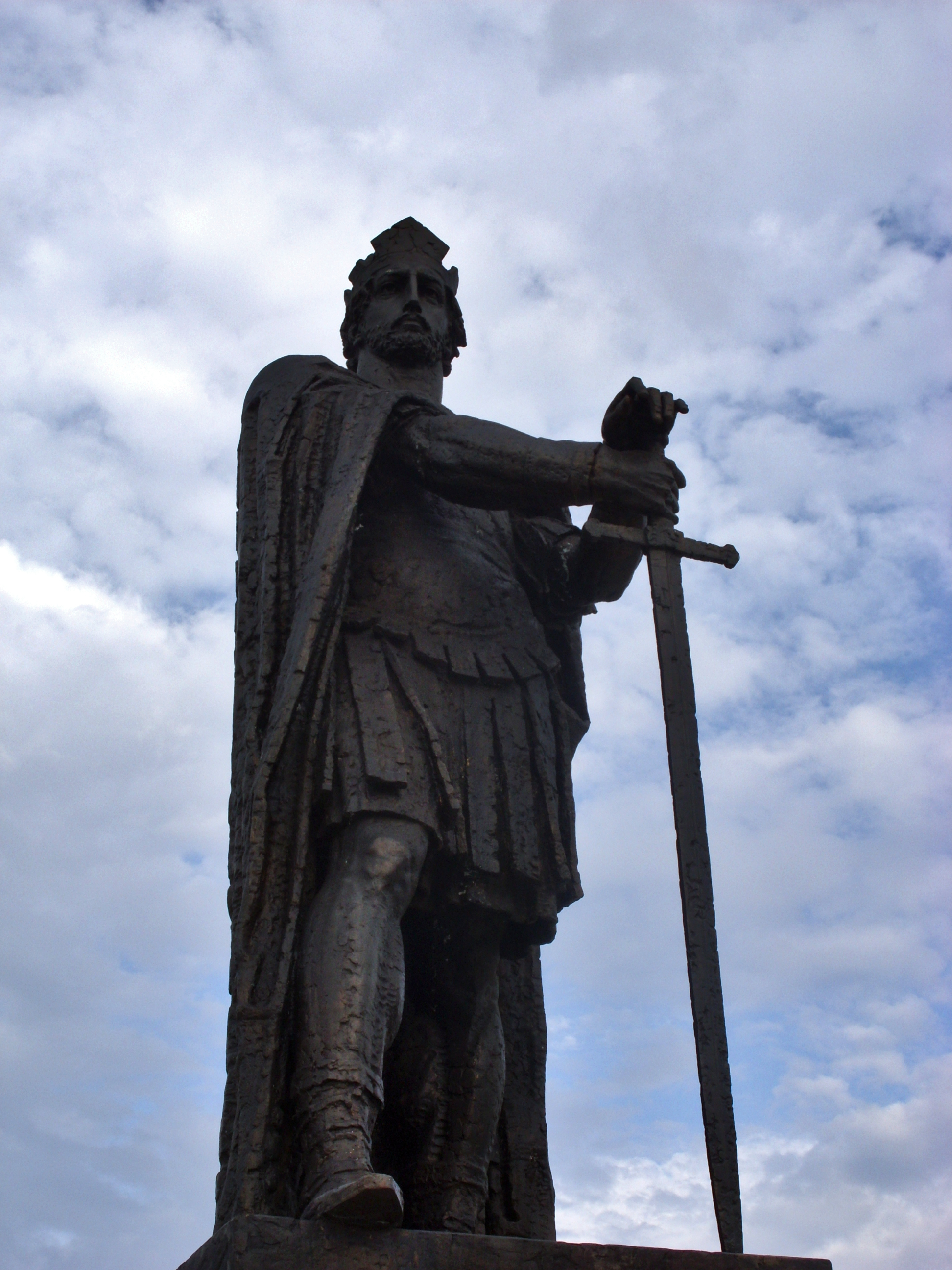 Monument to Stefan Lazarević in Despotovac, Serbia. Hornjoserbsce: Pomnik Stefana Lazarevića w serbiskej Despotovače.